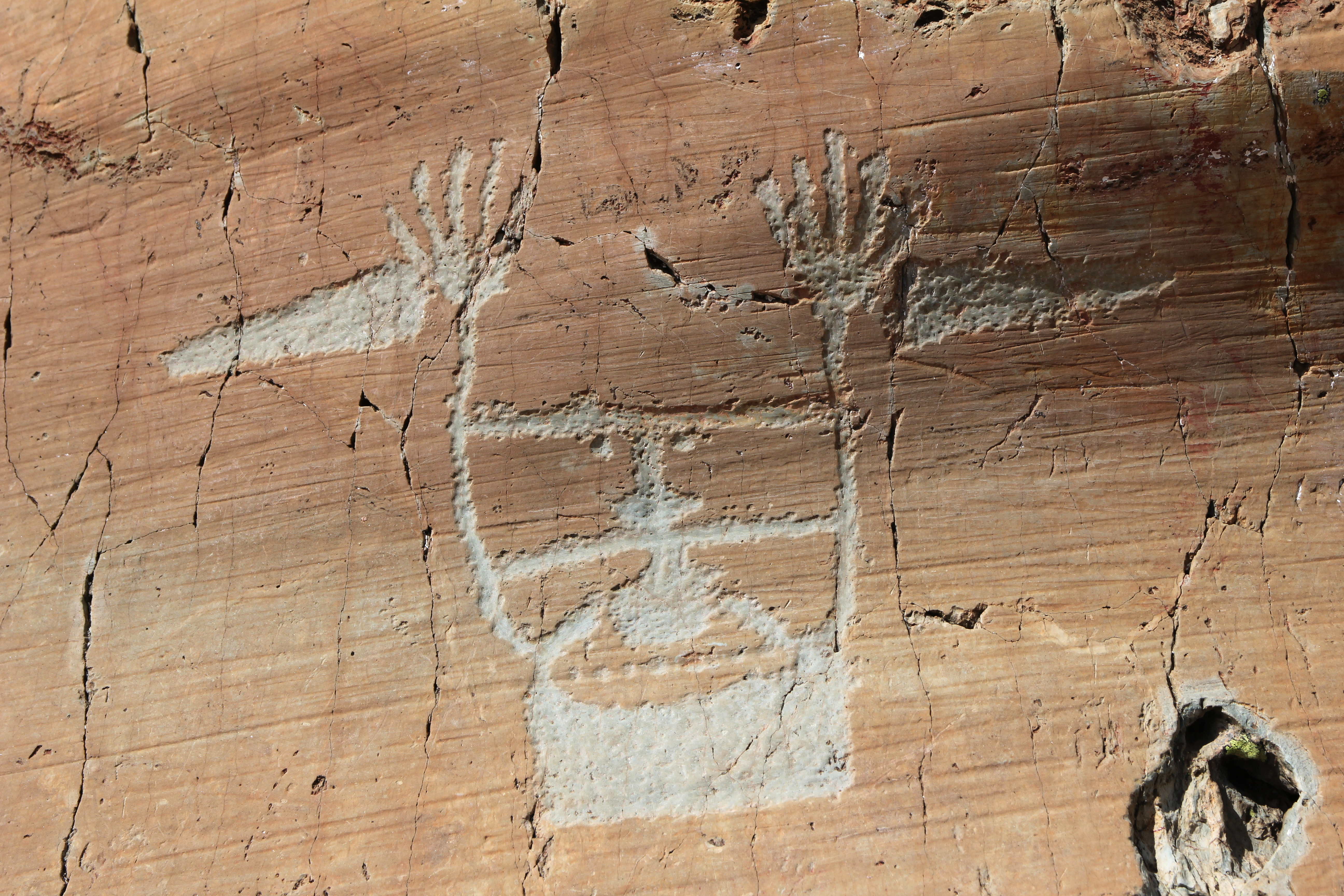 Vallée des Merveilles, Casterino, PACA, France